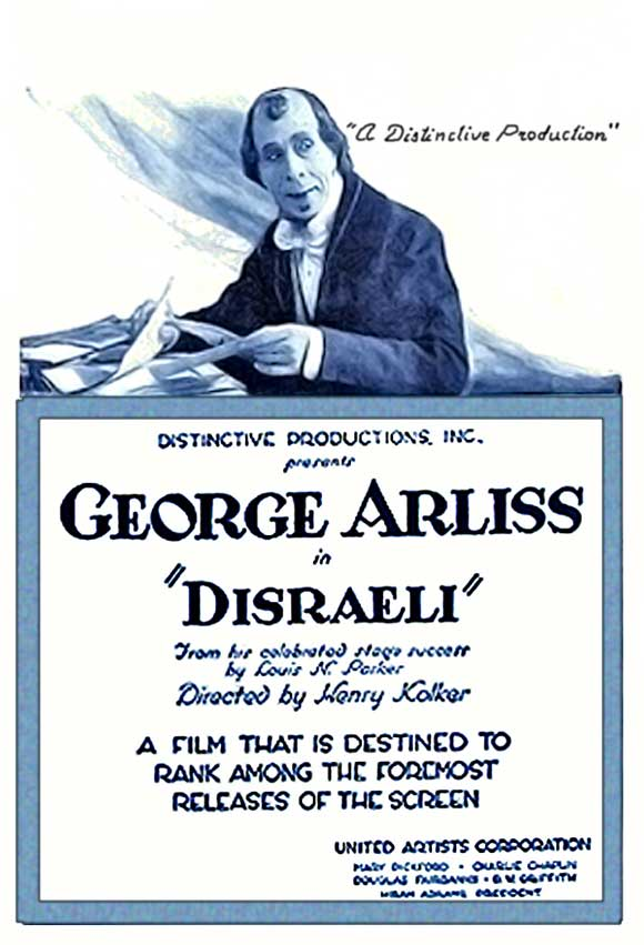 Poster for the American film Disraeli (1921) with George Arliss. Seems to be an ad.